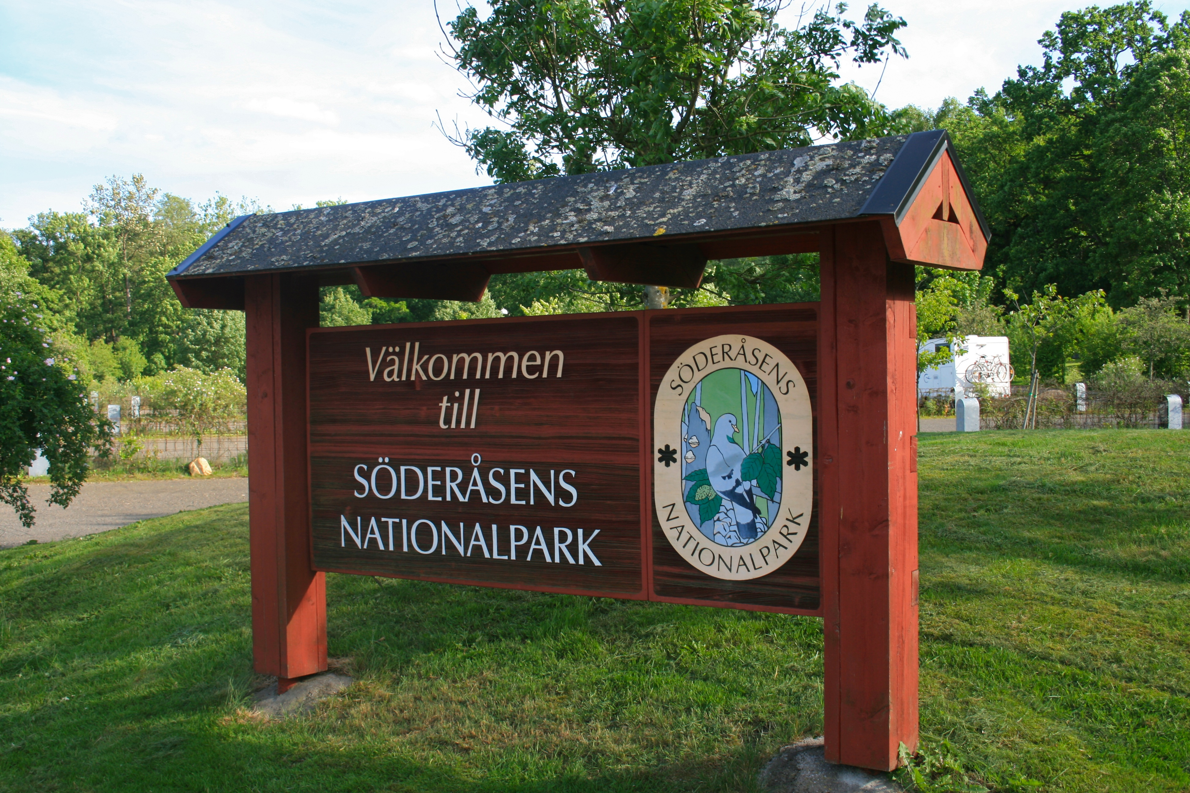 Welcome sign, at the entrance of Söderåsen national park, close to Skäralid.